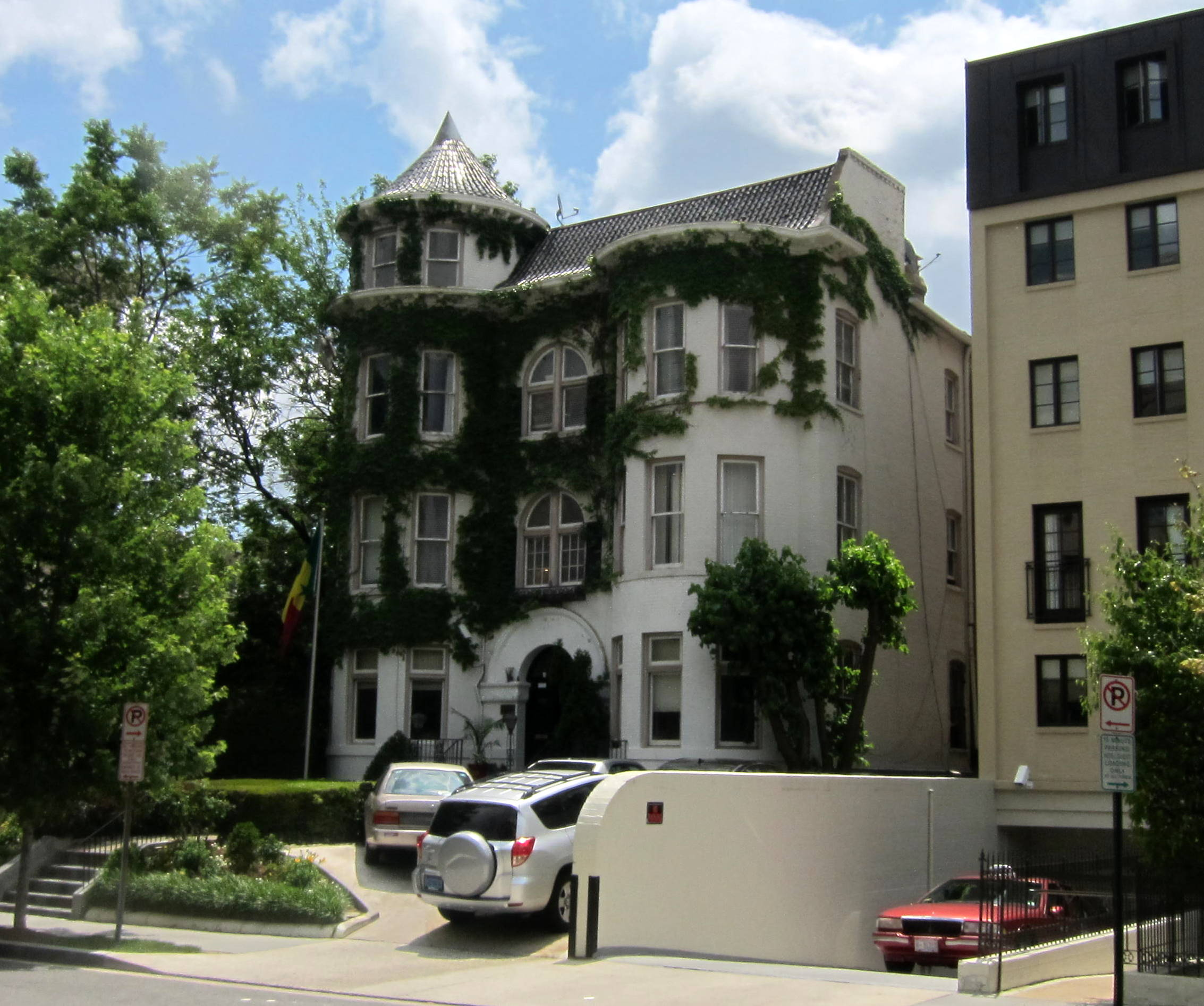 The Embassy of Senegal located at 2112 Wyoming Avenue, N.W., in the Sheridan-Kalorama neighborhood of Washington, D.C. Built as a private residence around 1902, the Queen Anne-style building is designated as a contributing property to the Sheridan-Kalorama Historic District, listed on the National Register of Historic Places in 1989. Previous occupants include (in order): E. L. Chapman, C. W. Cairnes, Homer Hart, U.S. Senator Robert M. La Follette, Sr., Tyler Kent, Ann P. Kent, Abner Bailey Kelly, and Rufus E. Milor.